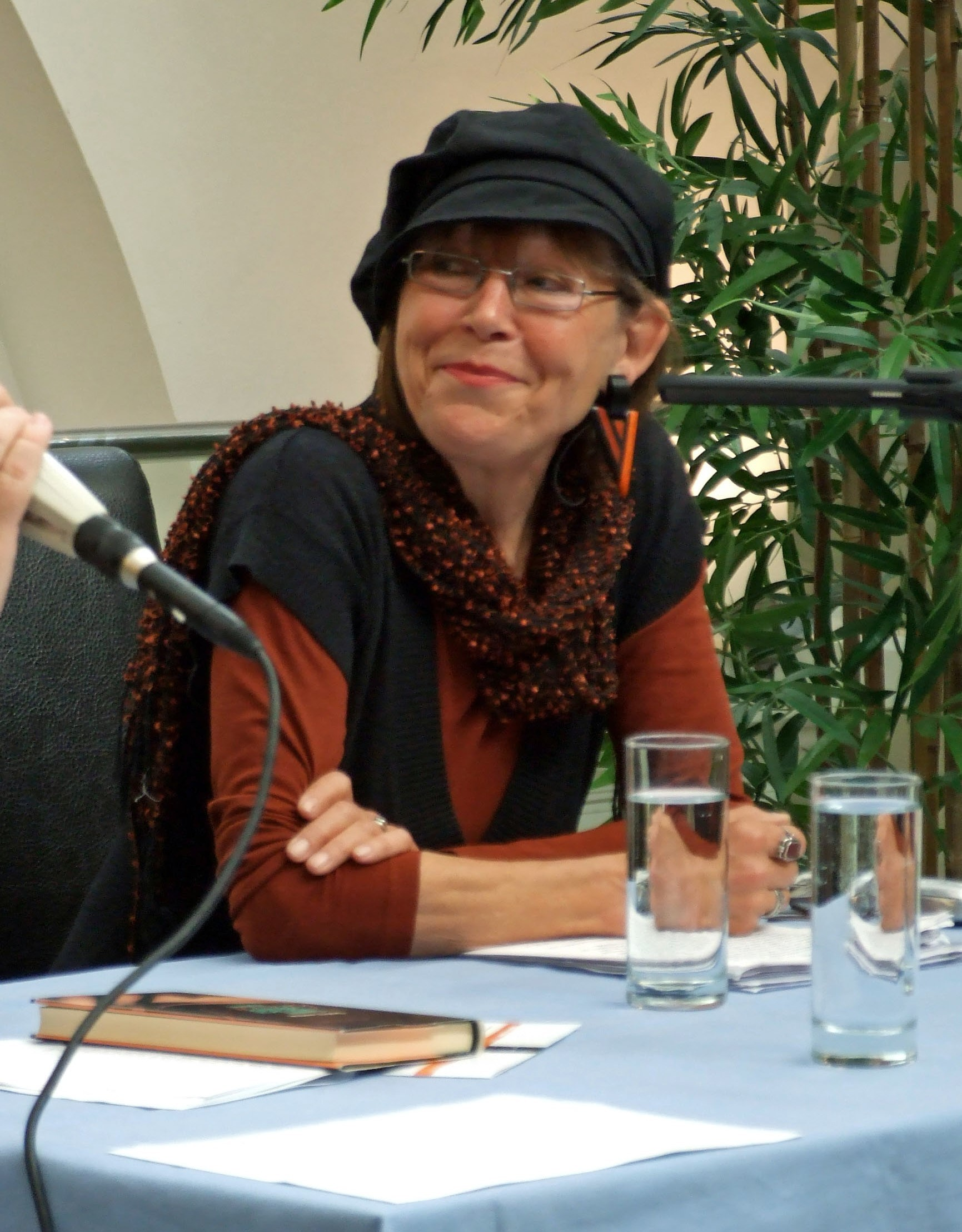 Doris Lerche in Frankfurt am Main